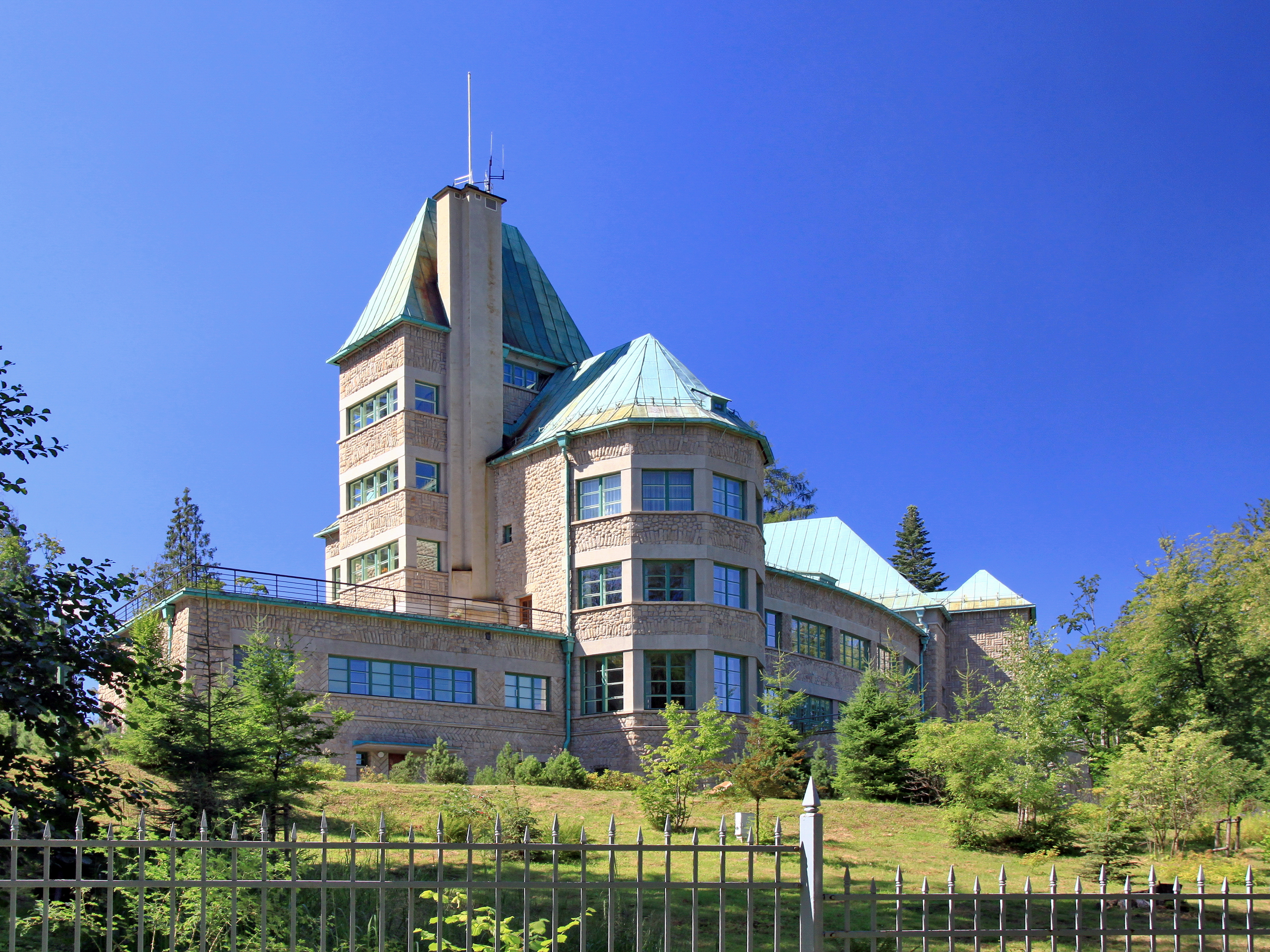 Wisła, castle of the President of Poland (Upper Castle), build in 1931